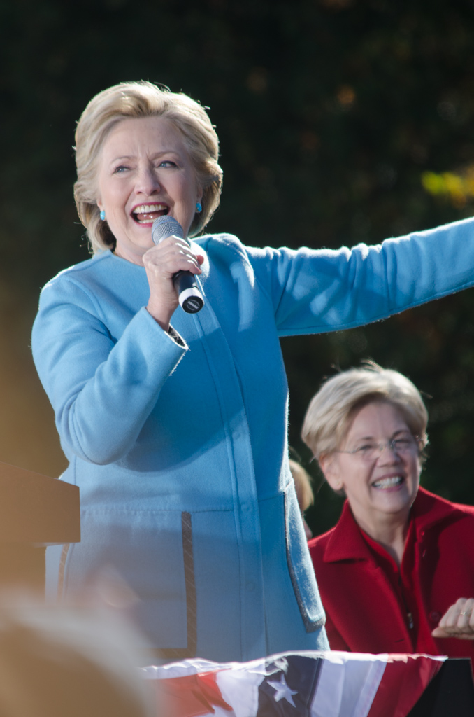 Hillary Clinton, with Massachusetts Senator Elizabeth Warren seated in the background, campaigning for President in Manchester, New Hampshire in October 2016.